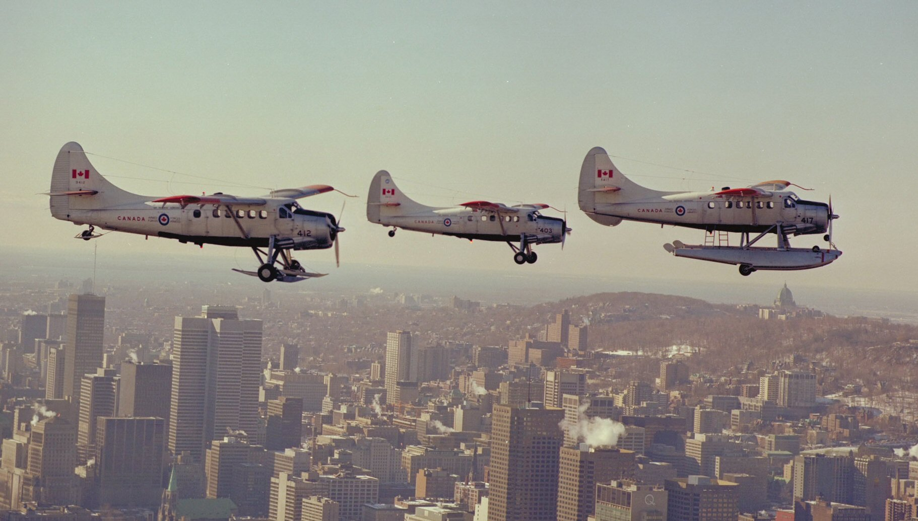 3 x 438 SQN RCAF DHC Otters over Montreal Quebec